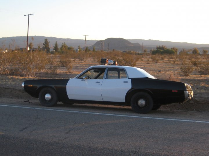 Police car from the music video "Stylo" by The Gorillaz. On location in Calico, CA photographed December 13th, 2009 by Trevor P. Hirst